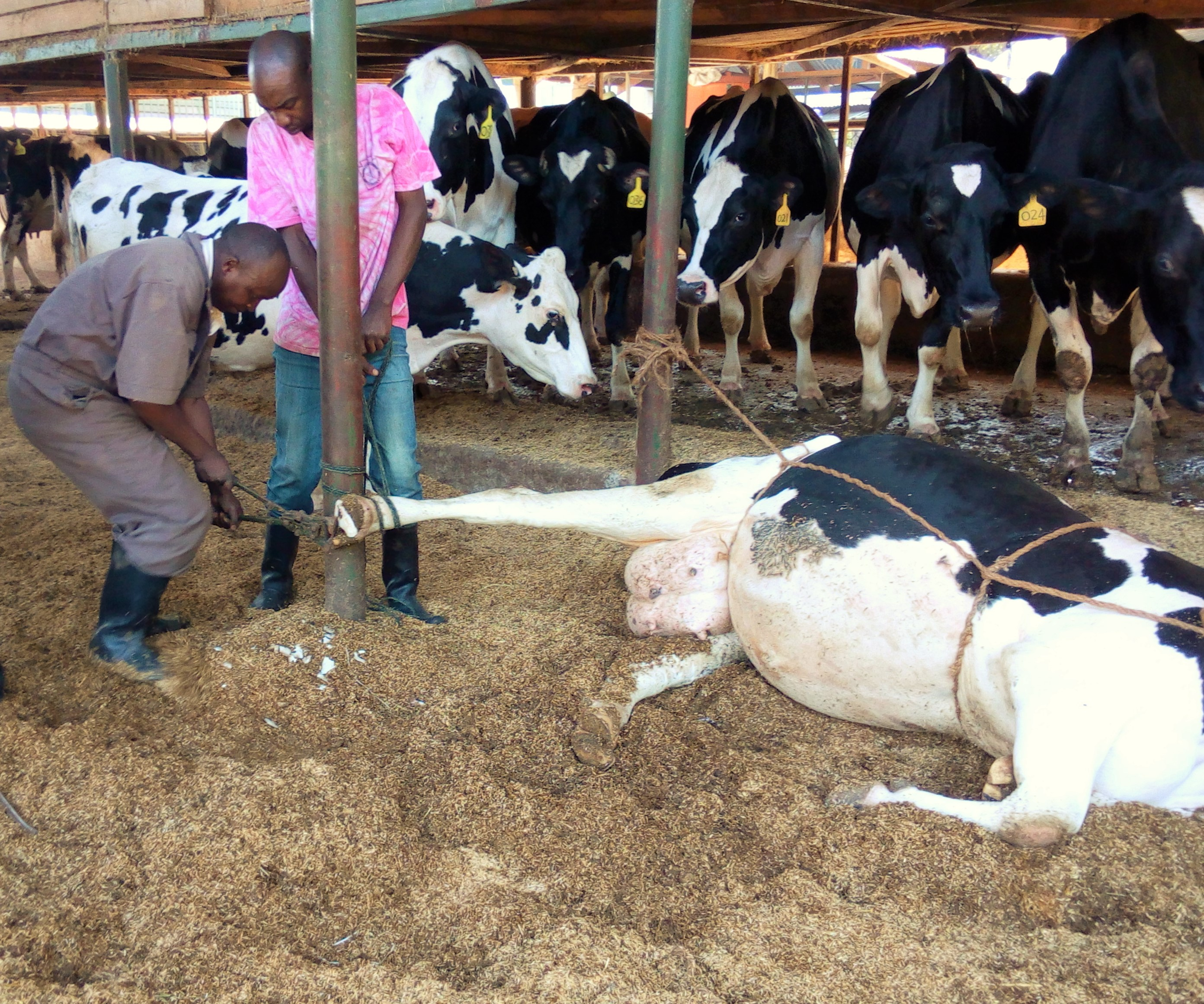 My dad Munene Ndegwa a veterinary technician in Kenya, trimming the hooves of a cow on a farm in Kenya's Kirinyaga county while other cows curiously watch. This is an image of "African people at work" from Kenya